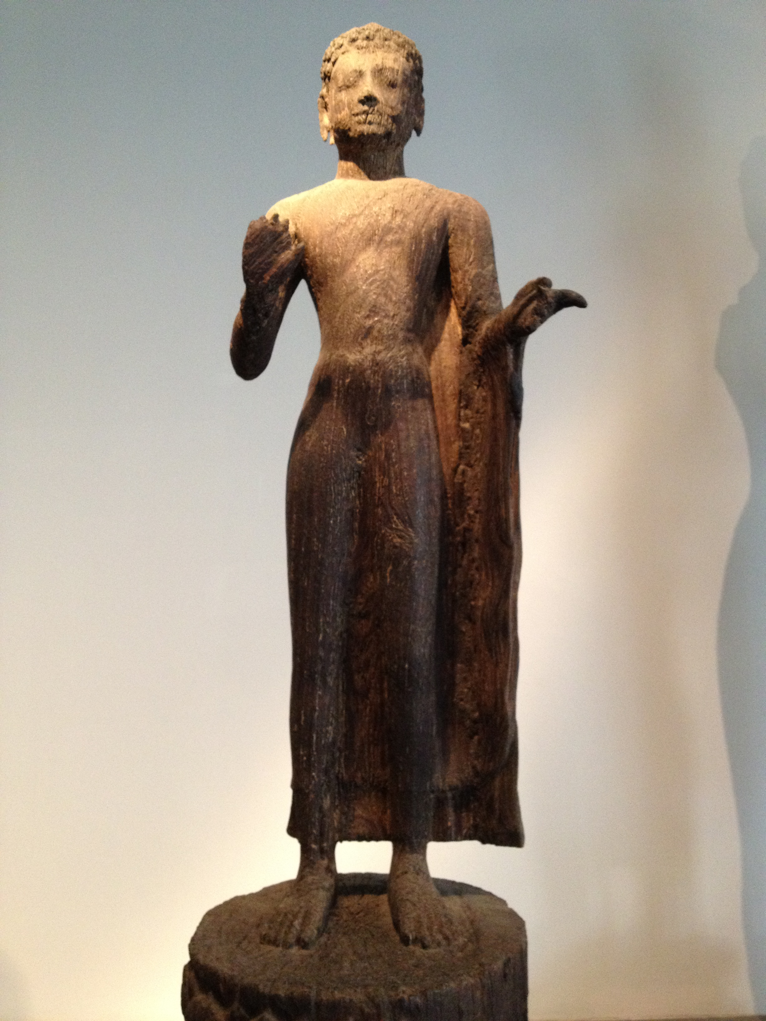 Wooden statue of Buddha, found in Binh Hoa, Long An, Vietnam. 7th-8th century. Museum of Vietnamese History, Ho Chi Minh city.